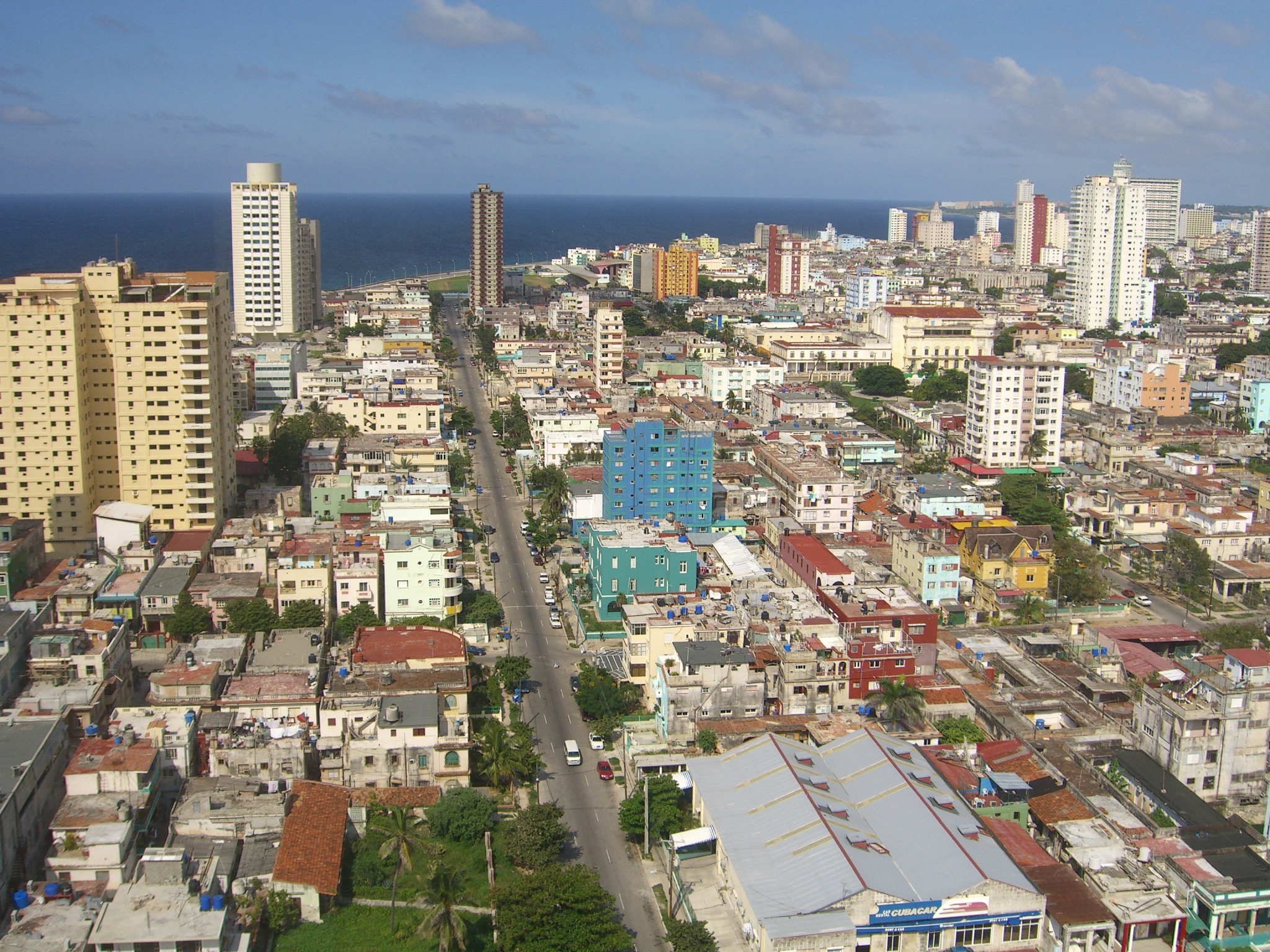 View to the east on 3ra street from the 20th floor of the Meliá Cohiba hotel in Havana, Cuba